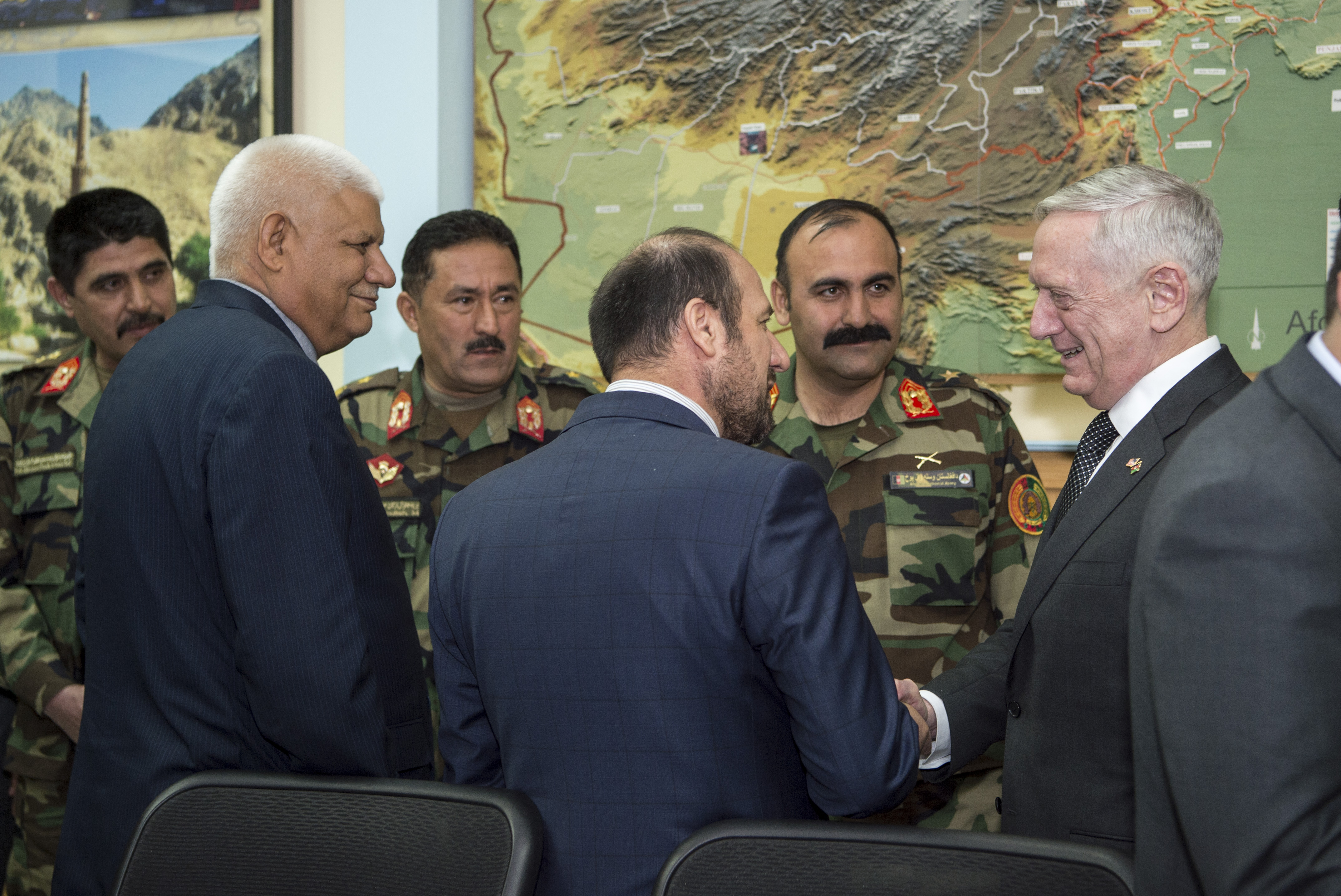 Secretary of Defense Jim Mattis speaks with Afghanistan's Minister of Interior Affairs Mohammad Jahid and Afghanistan's Minister of Defense Abdullah Habibi at the Resolute Support Headquarters in Kabul, Afghanistan, April 24, 2017. (DOD photo by U.S. Air Force Tech. Sgt. Brigitte N. Brantley)